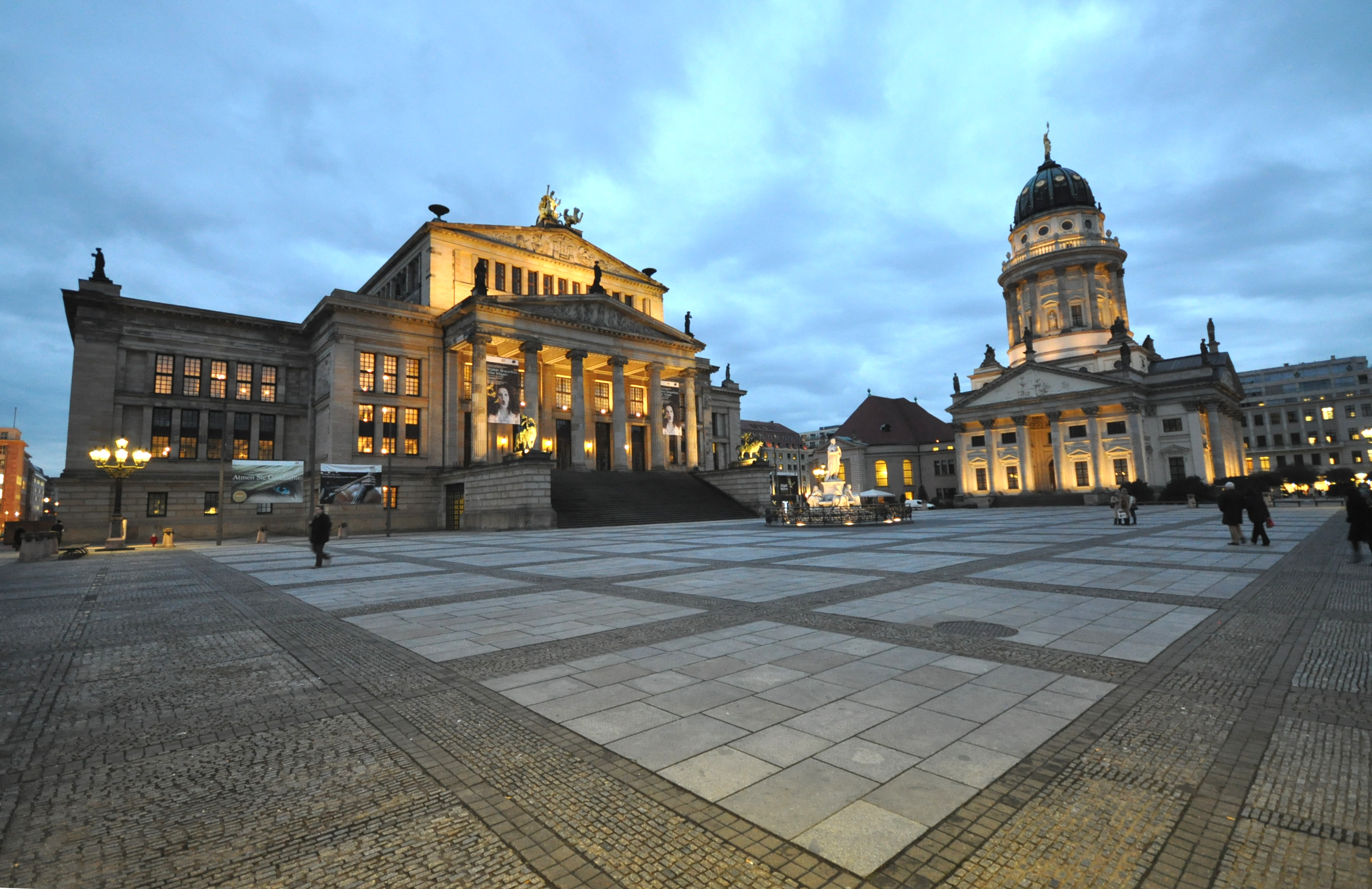 The Gendarmenmarkt square in Berlin, site of the Konzerthaus and the French and German Cathedrals.